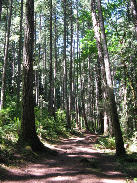 Photographed by Adam Walker on July 10th, 2008, within the park boundaries of Roberts Memorial Provincial Park. Any reproduction of any kind is permissible by Adam Walker.